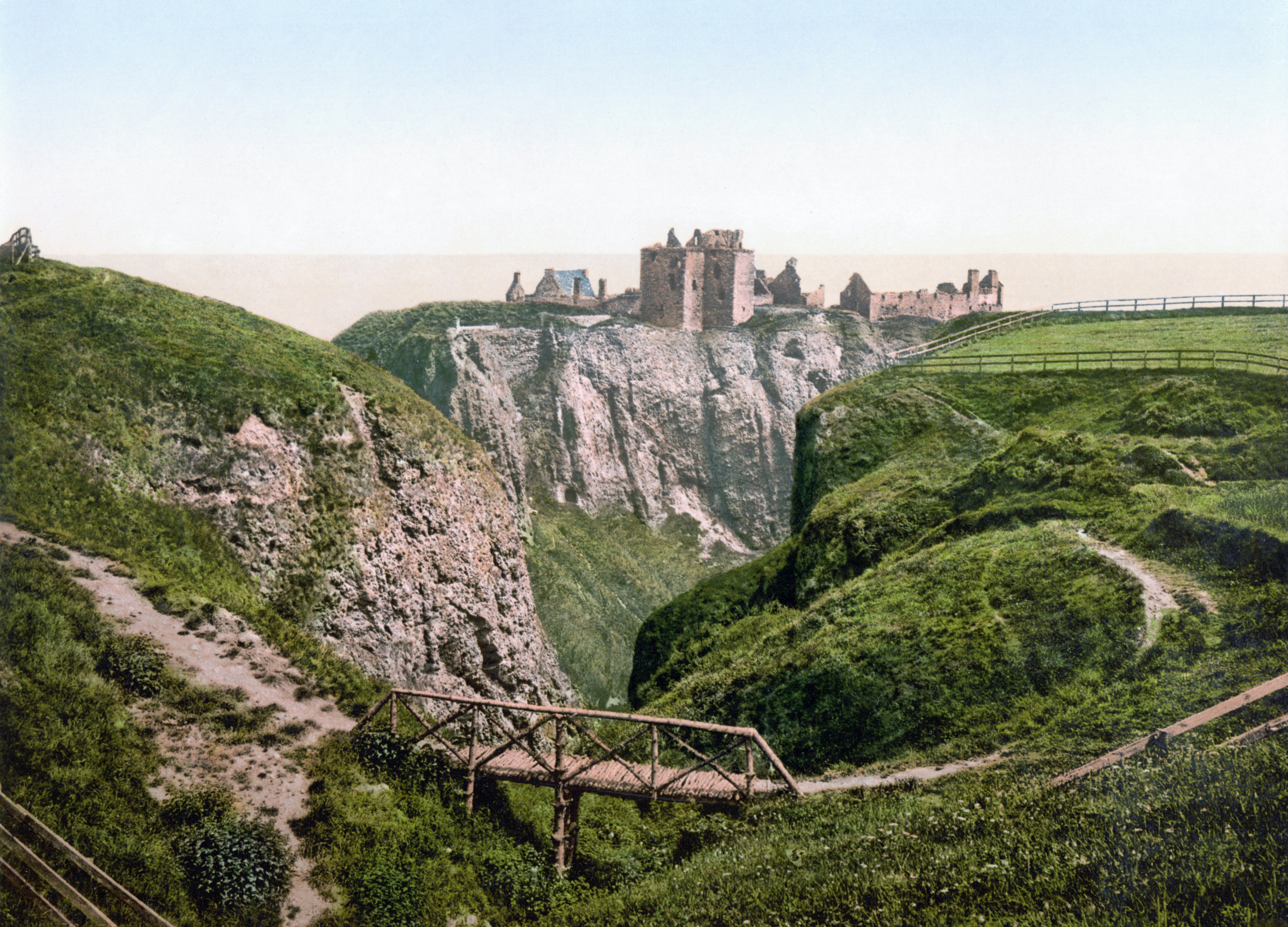 Dunnottar Castle, c. 1890–1900